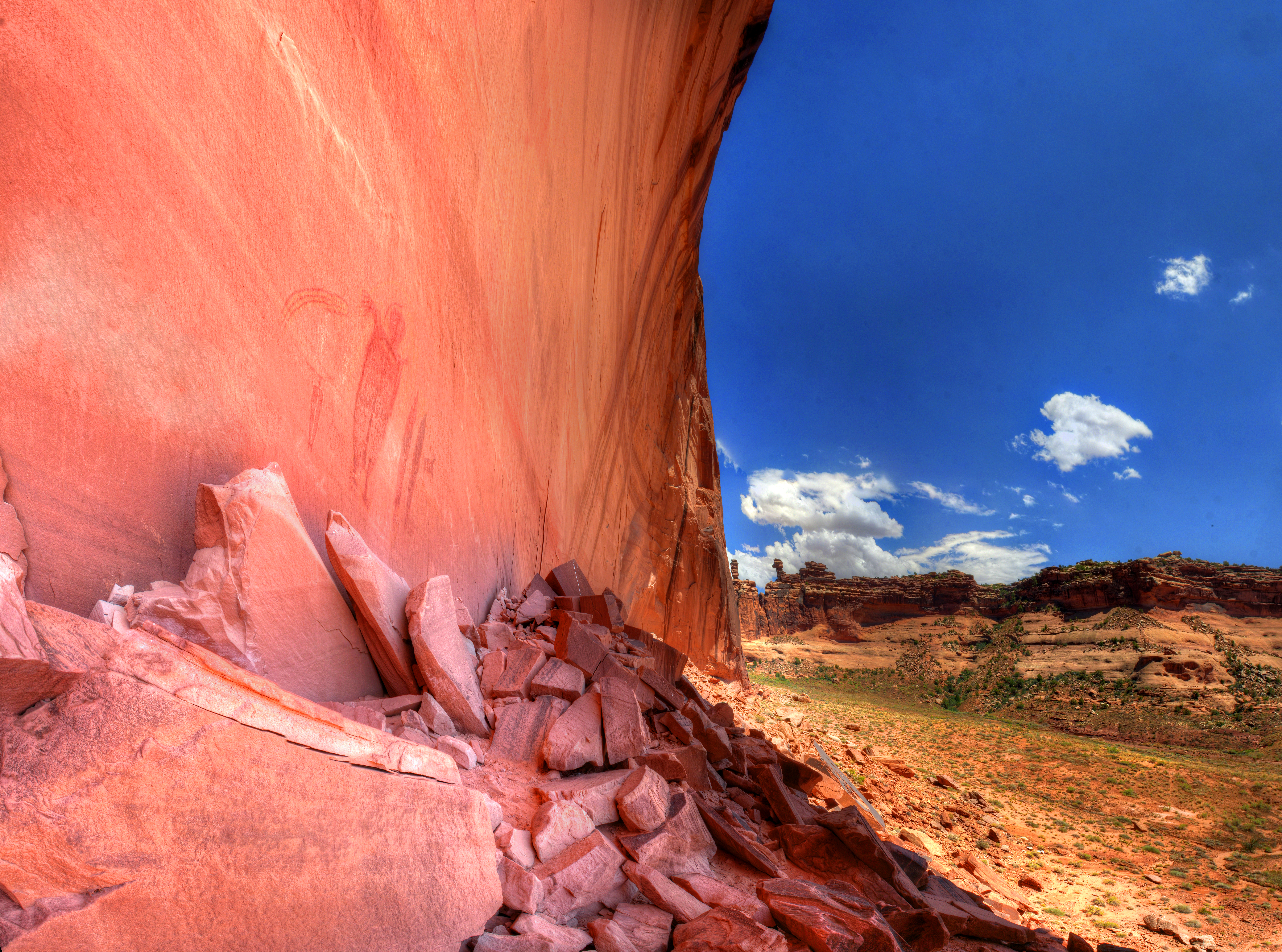 Native American pictographs in Hell Roaring Canyon